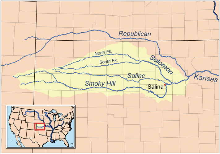 Map of the Smoky Hill River watershed.